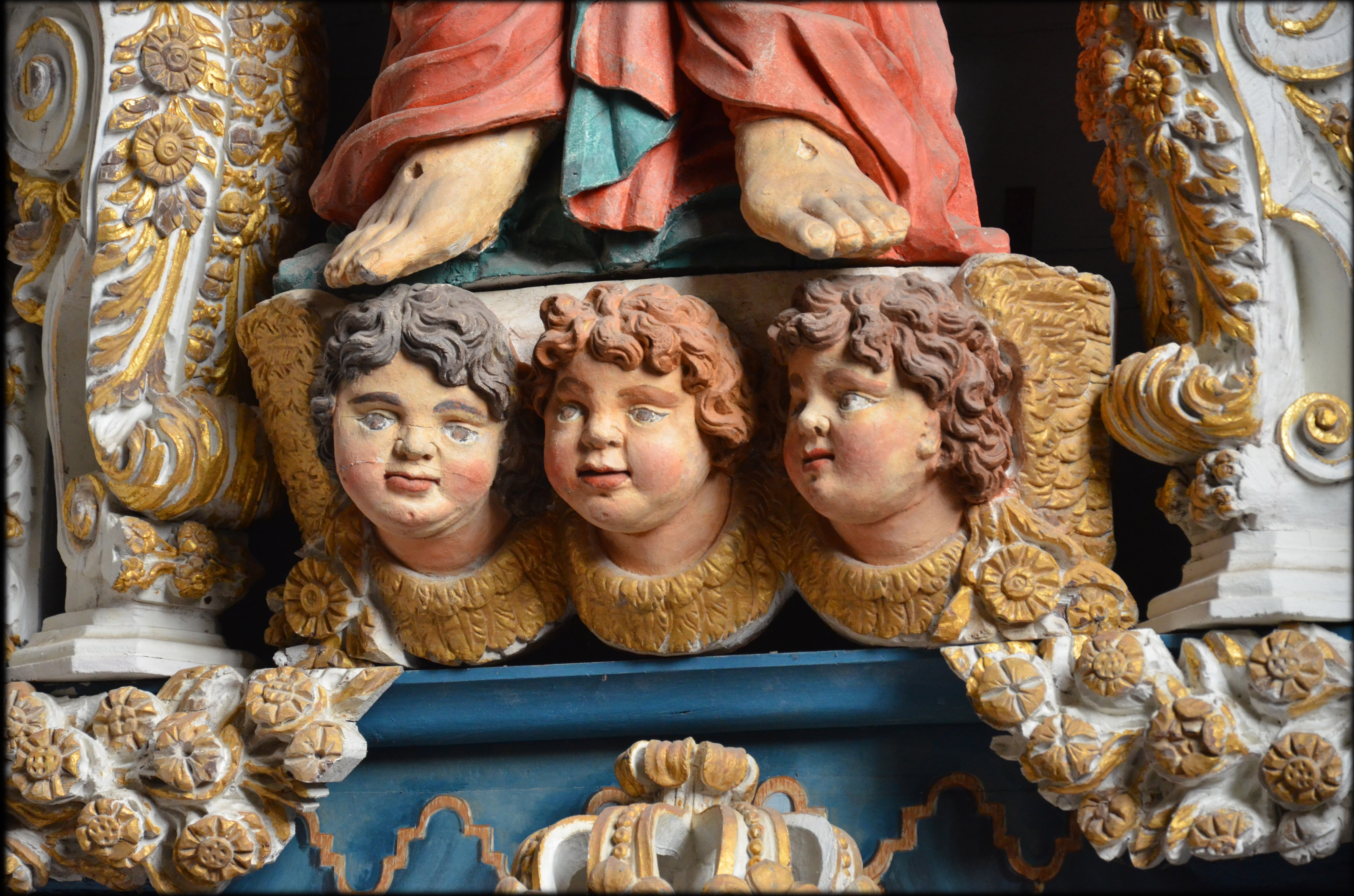 Inside of the church of Saint-Derrien (in common Commana, located in Brittany in western France). The south transept houses the "altar of the Five Wounds." At the bottom of the church, a baptistery basin of stone is topped by a high dai including wood carvings decorated with feminine virtues (temperance, justice ...).